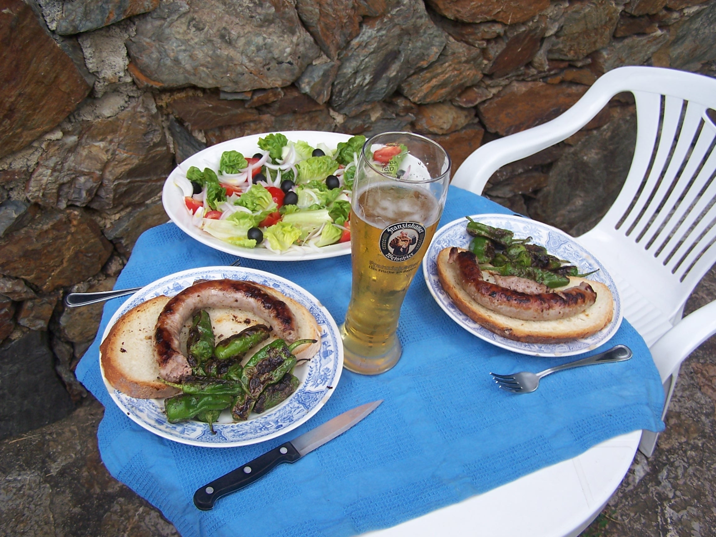 Botifarra, a catalonian embutido.